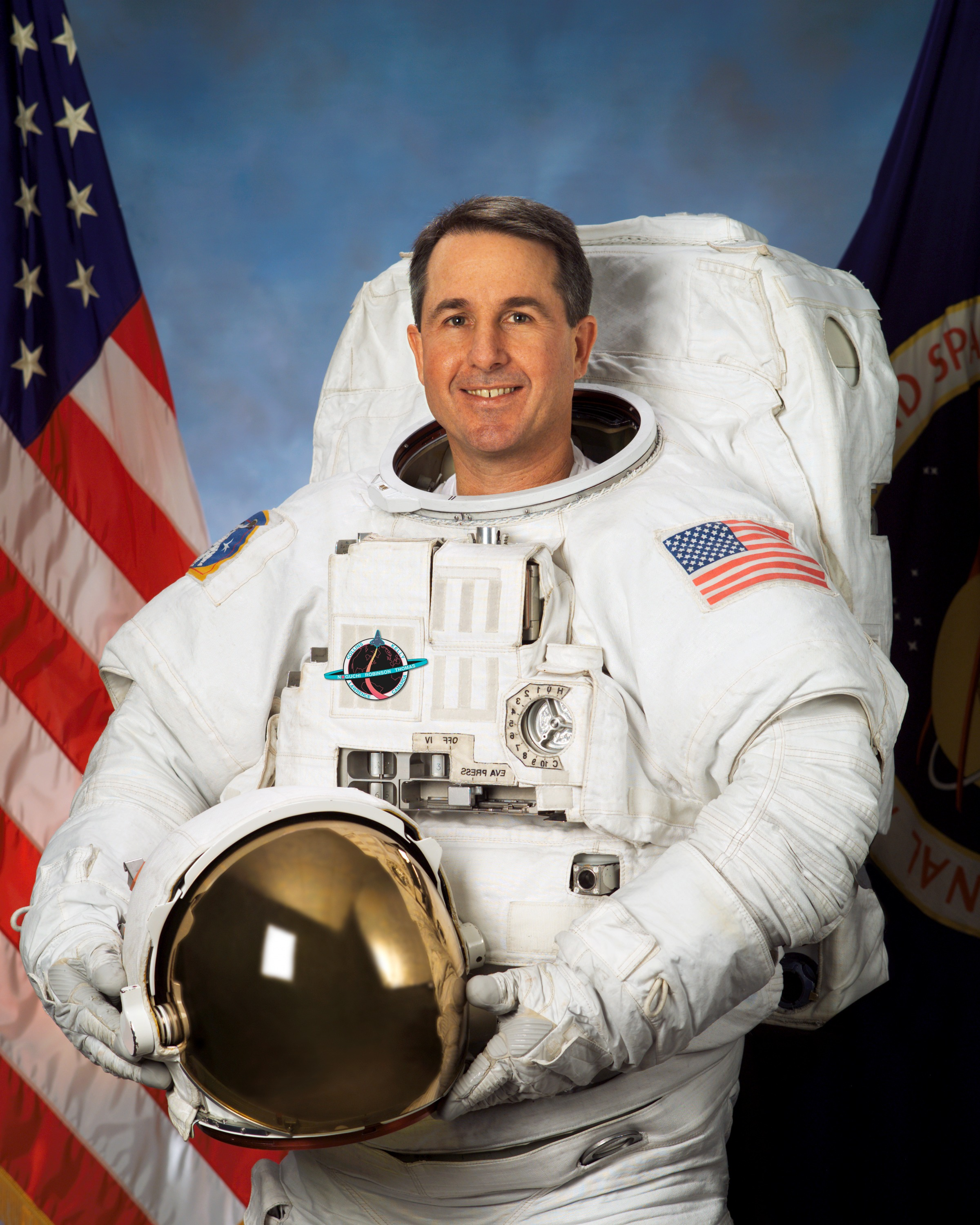 Astronaut Stephen K. Robinson, mission specialist